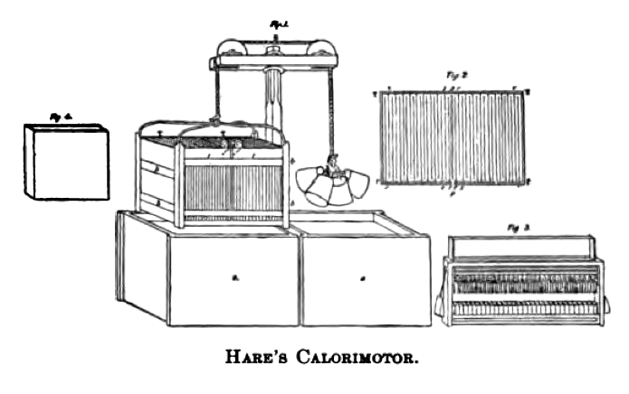 The Calorimotor by Robert Hare